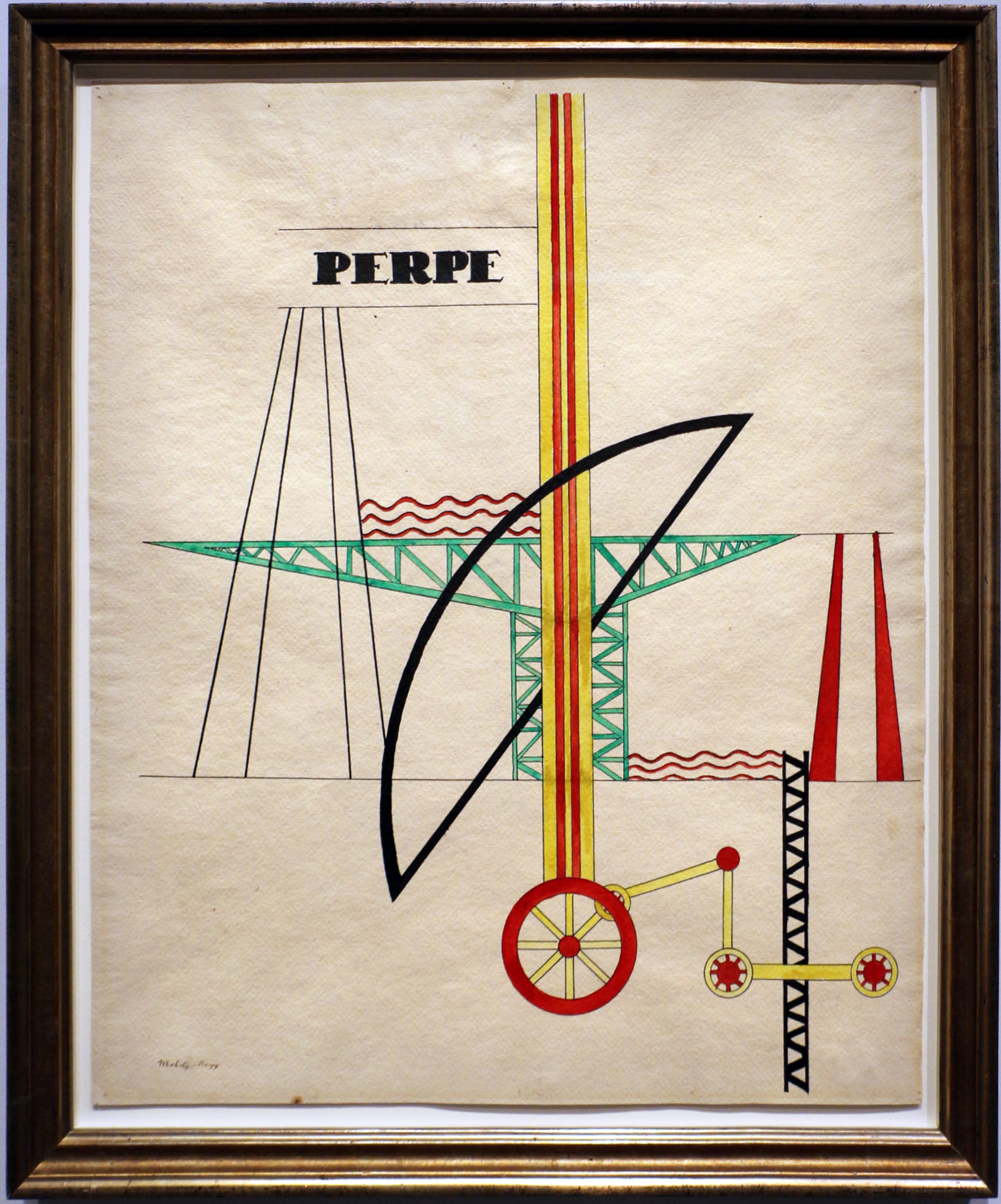 Moholy-Nagy: Future Present (2016 exhibition)